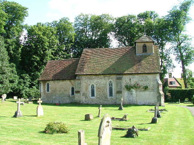 Letchworth Old Church. So old that you can't read the gravestones.